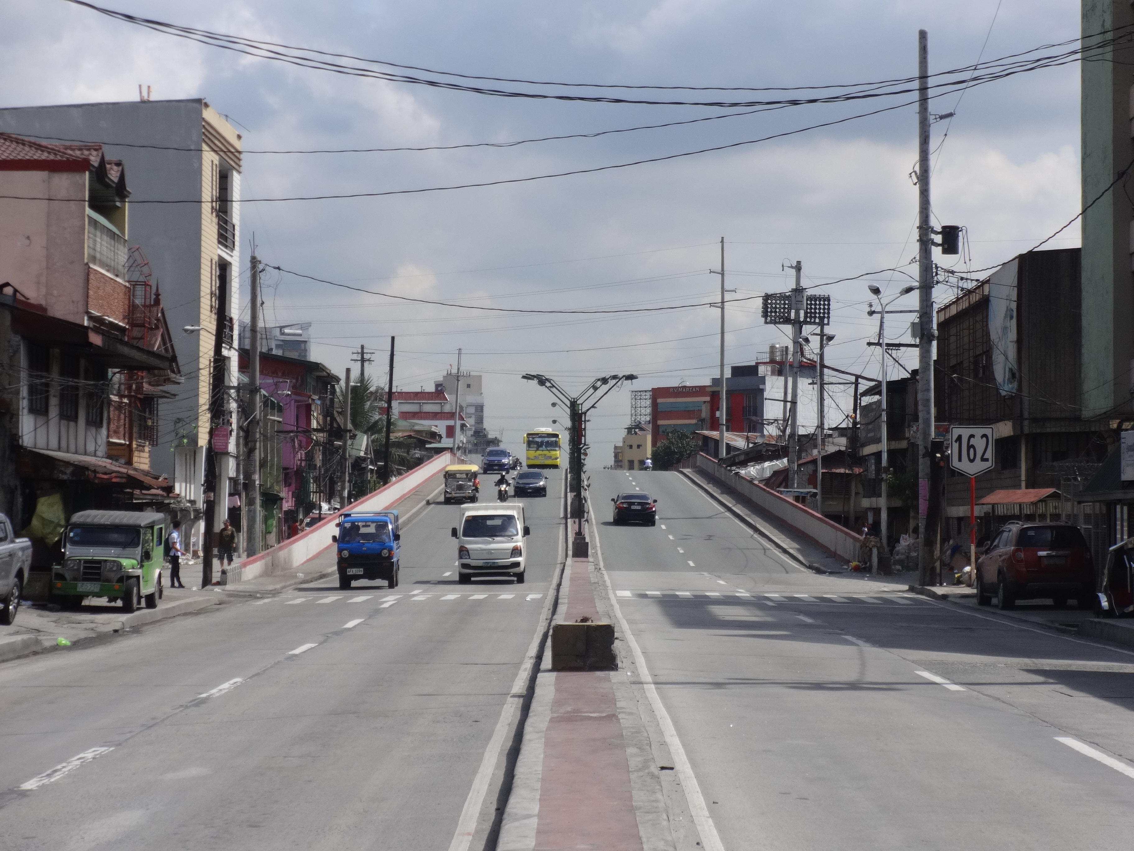 Dimasalang Street in Sampaloc, Manila. This is part of Route 162.